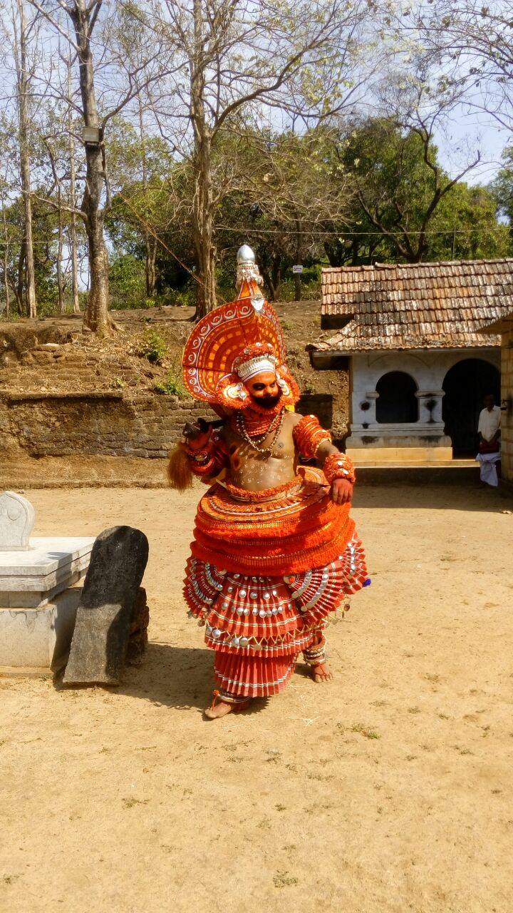 Vettakkorumakan Theyyam_ Manjadukkam Thulurvanam. Photo: G. Sivadas Rajapuram